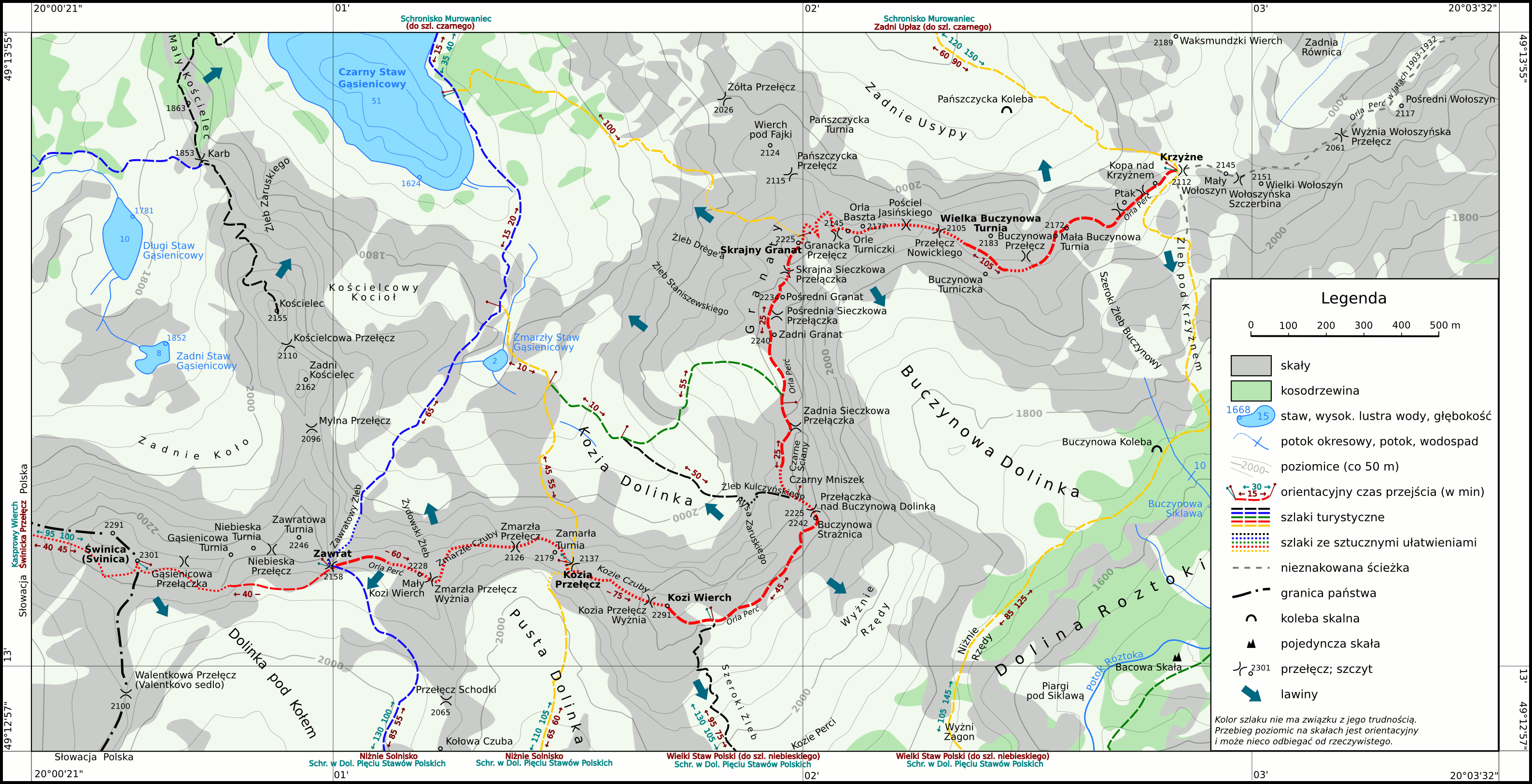 Map of Orla Perć ("Eagle's Path"), Tatra National Park, Poland